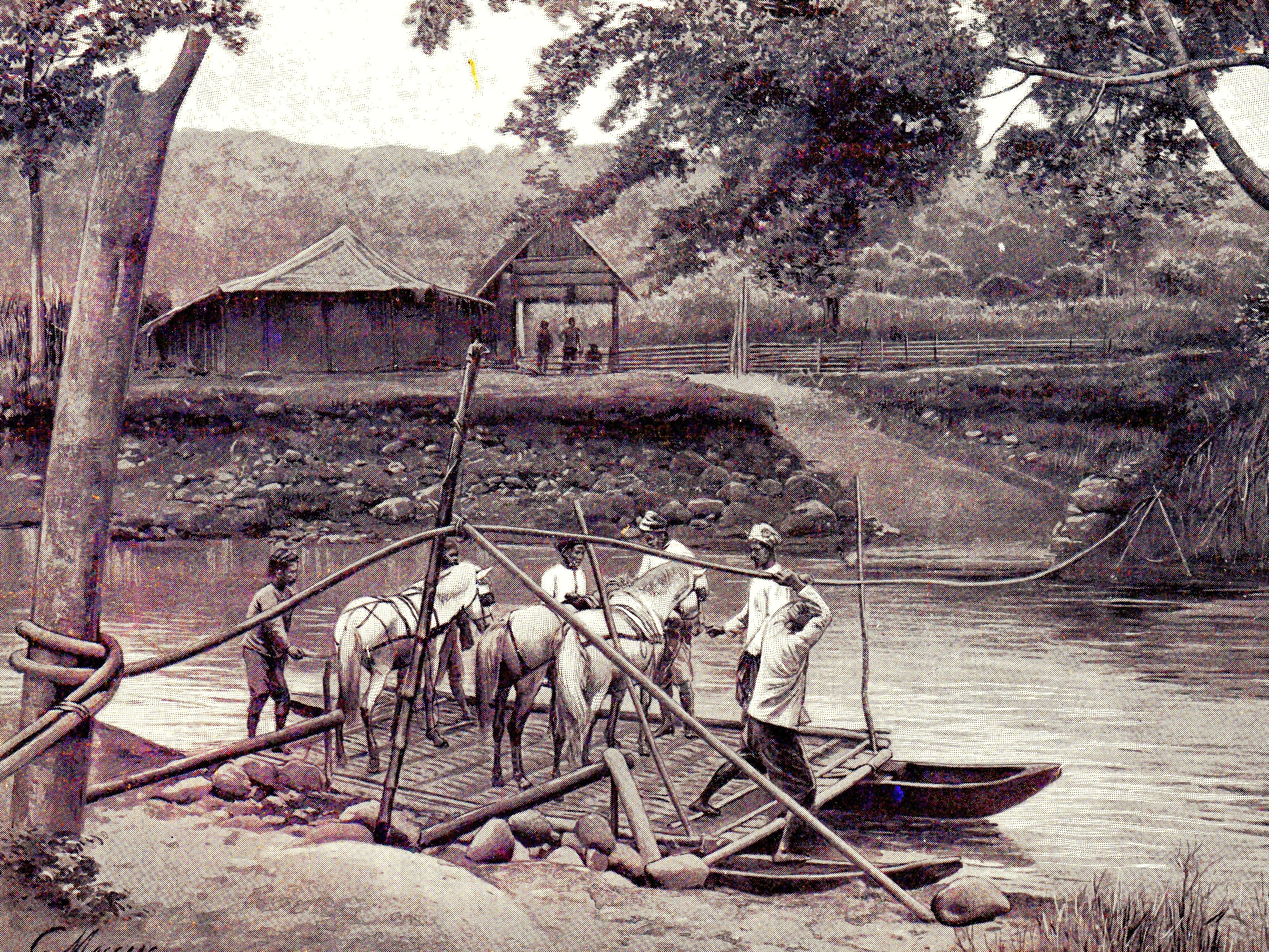 River at Tji Mandiri